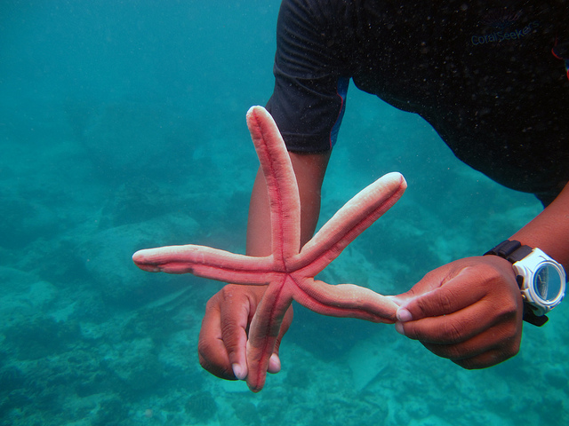 Beautiful starfish of the andaman sea, phuket